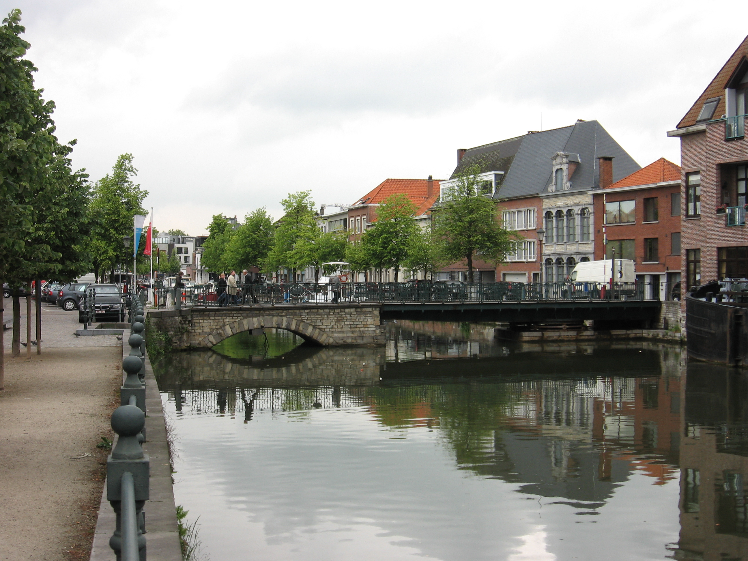 Kraanbrug (Mechelen)